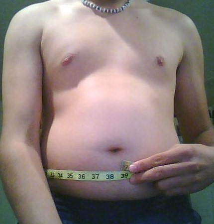 On overweight man's waistline.